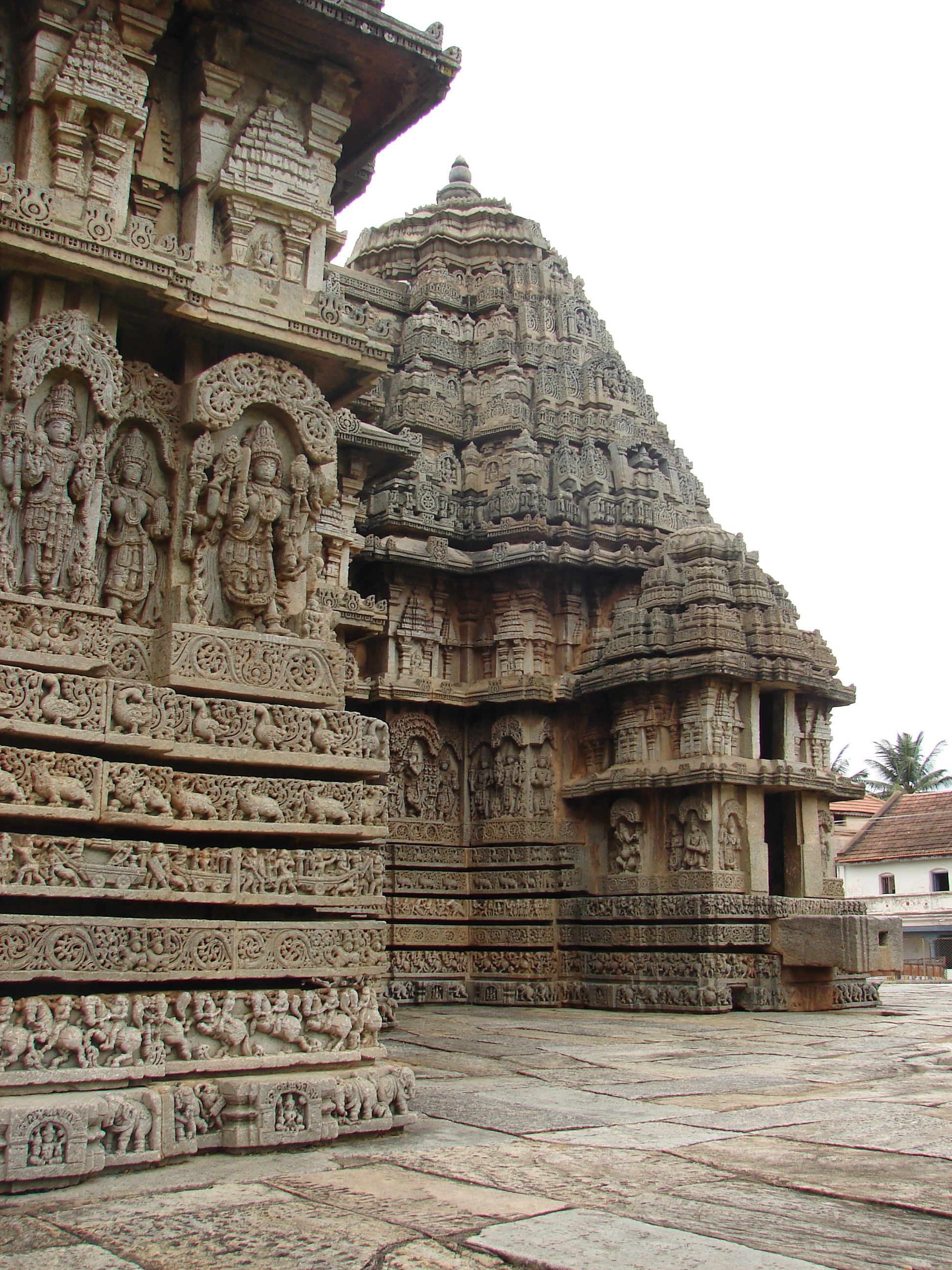 This photograph was taken by me at at Lakshminarayana temple in Hosaholalu, Mandya district, Karnataka state, India. The temple was built in 1250 A.D. during the reign of Hoysala Empire King Vira Someshwara. It is considered one of the ornate examples of Hoysala architecture. The shrine and the tower over it follow a stellate design style characteristic of the Hoysala architecture.